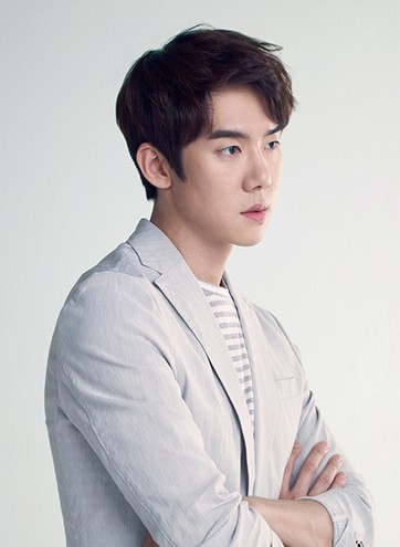 Yoo Yeon-seok for Bean Pole accessories Summer 2015 collection